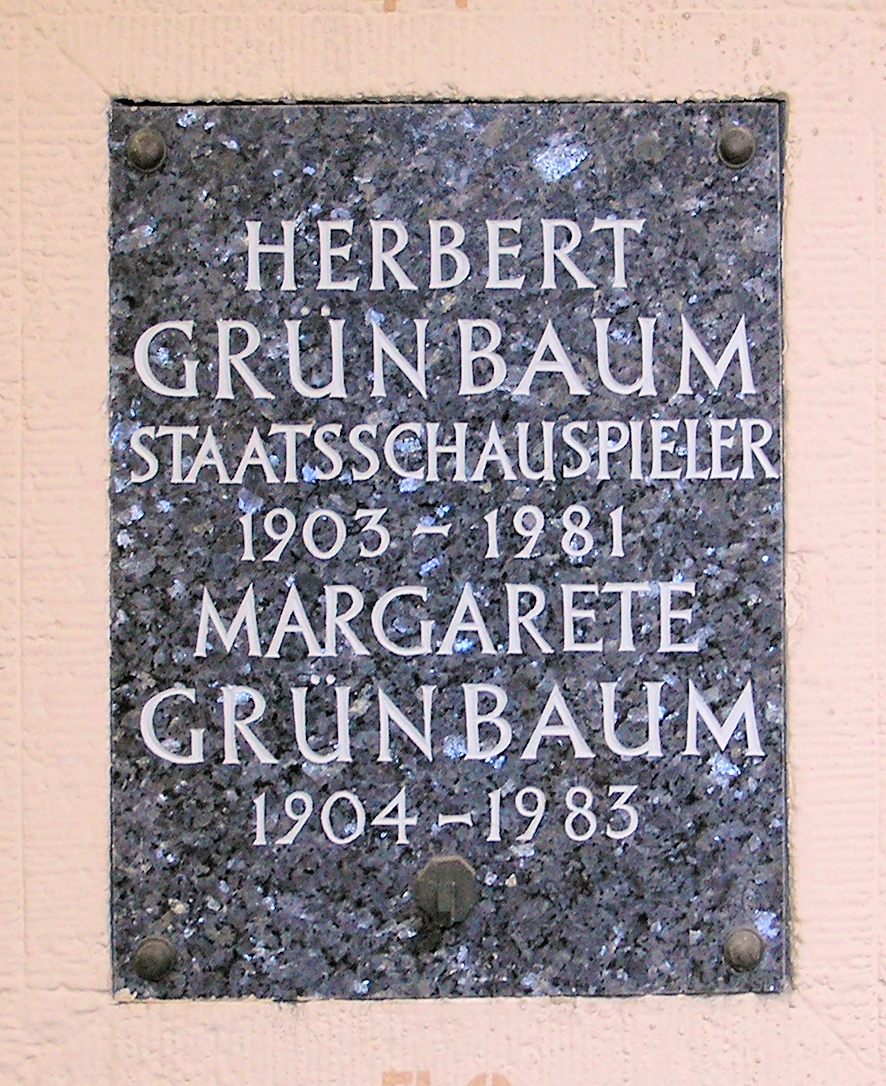 Graves, Herbert Grünbaum, Stubenrauchstraße 43–45, Berlin-Friedenau, Germany Herbert Grünbaum: Schauspieler Koordinate:52°28′33″N 13°19′22″E / 52.47583°N 13.32278°E